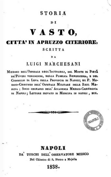 frontispiece Storia di Vasto di Luigi Marchesani Napoli, da' Torchi dell'Osservatore medico, 1838